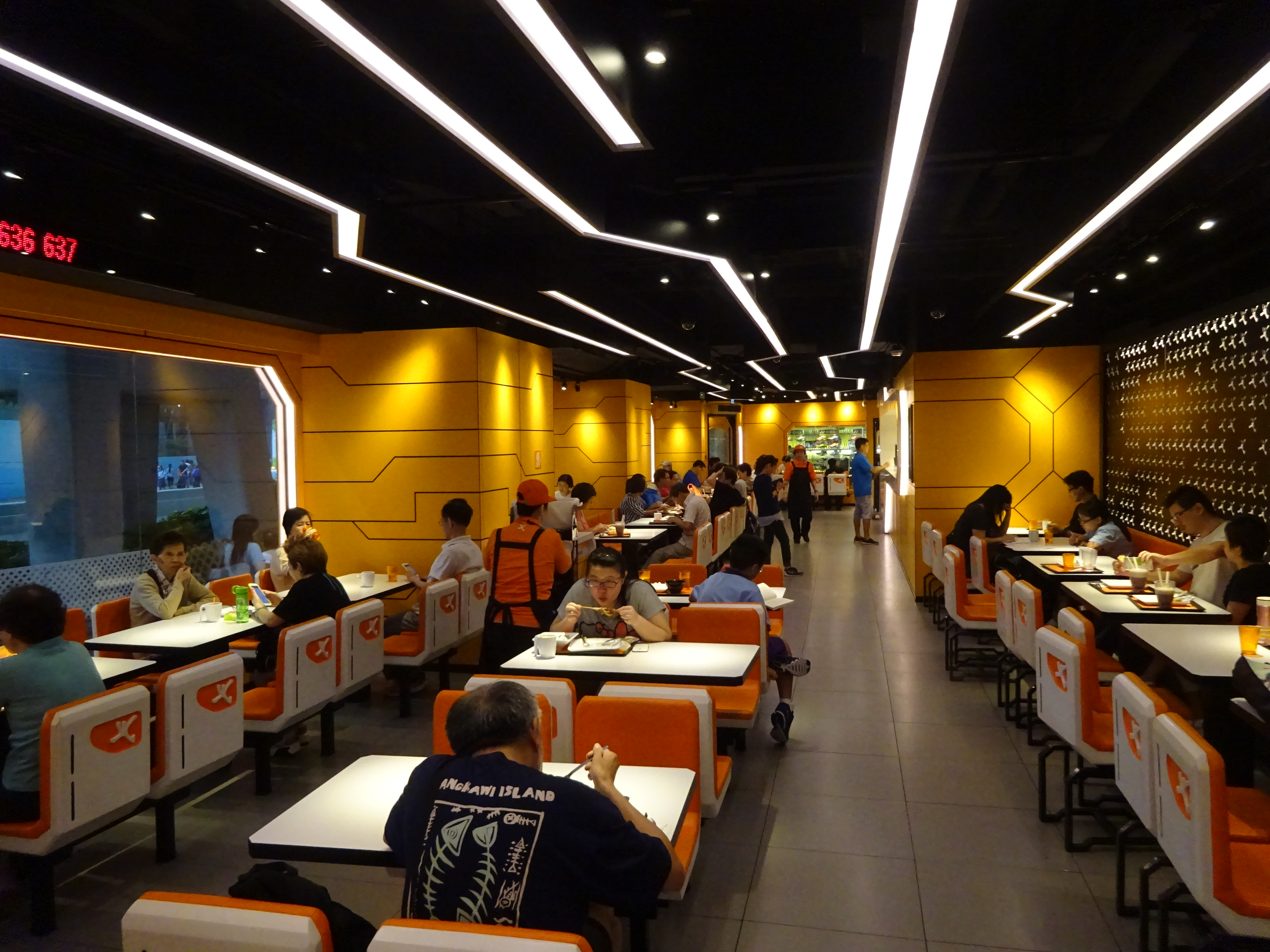 HK 香港仔中心 Aberdeen Centre mall 大快活 Fairwood Restaurant in May 2016